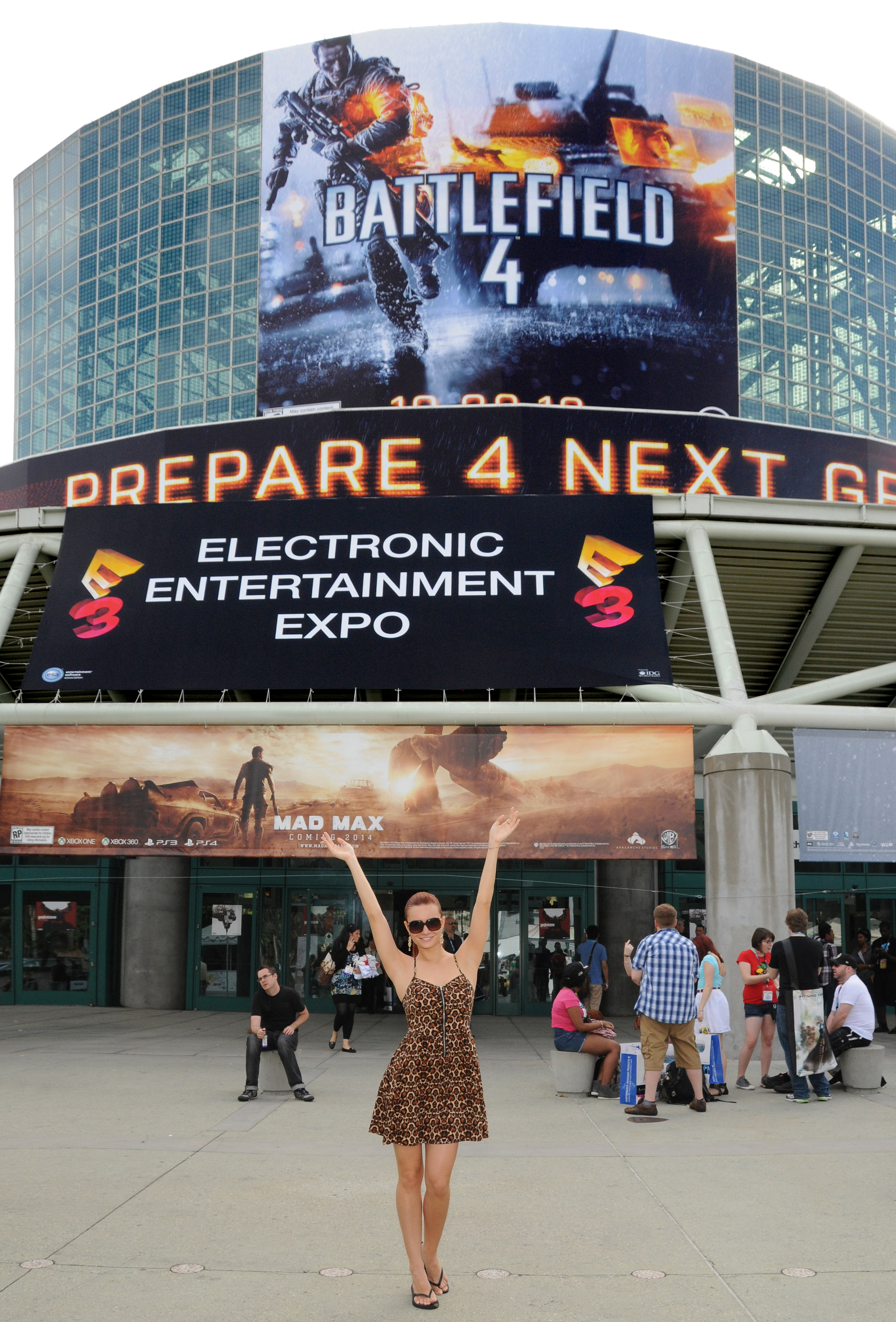 E3 Expo at the Los Angeles Convention Center showing the South Hall Entrance - Photo by Glenn Francis of